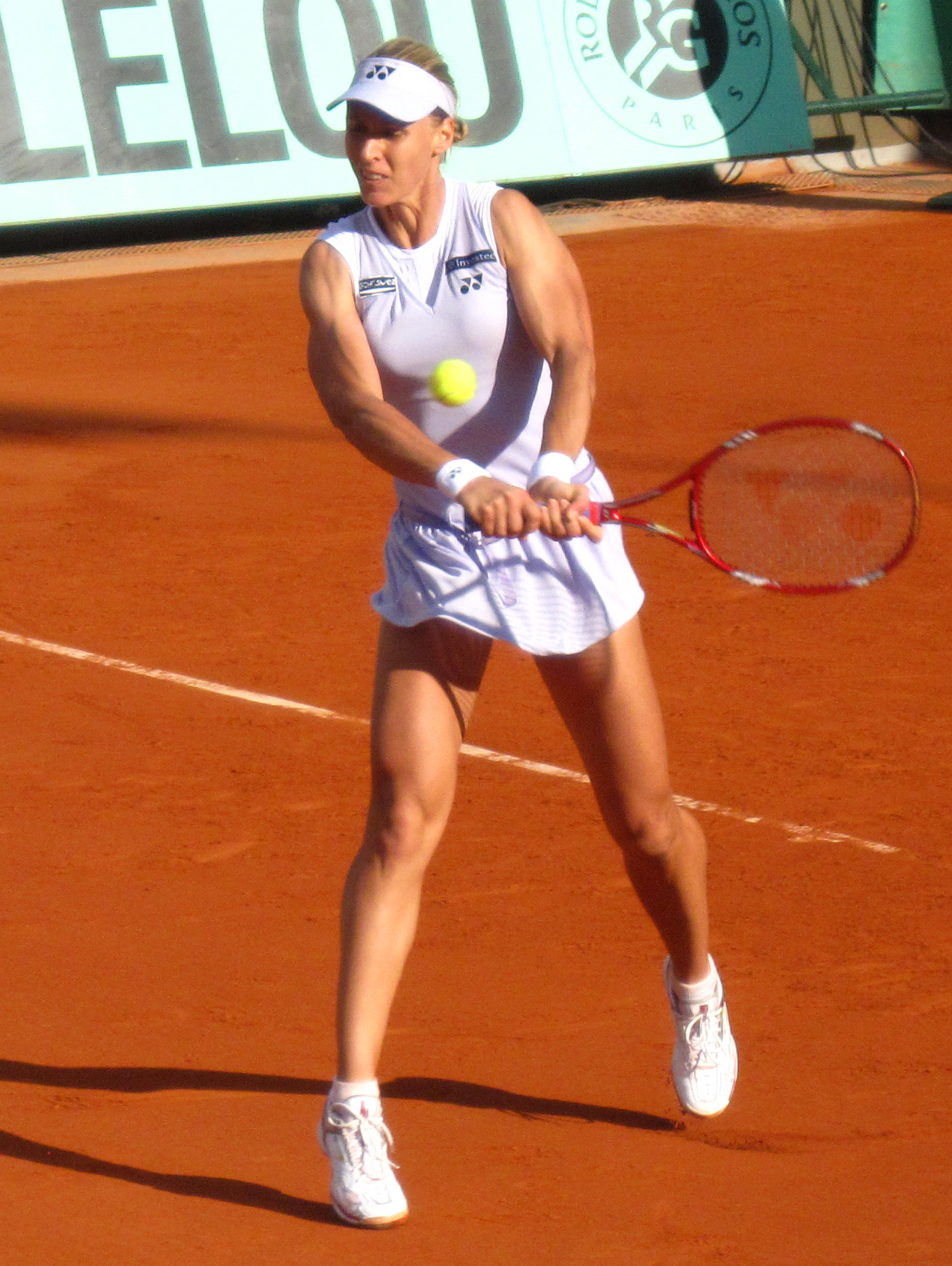 Elena Dementieva at 2009 Roland Garros, Paris, France